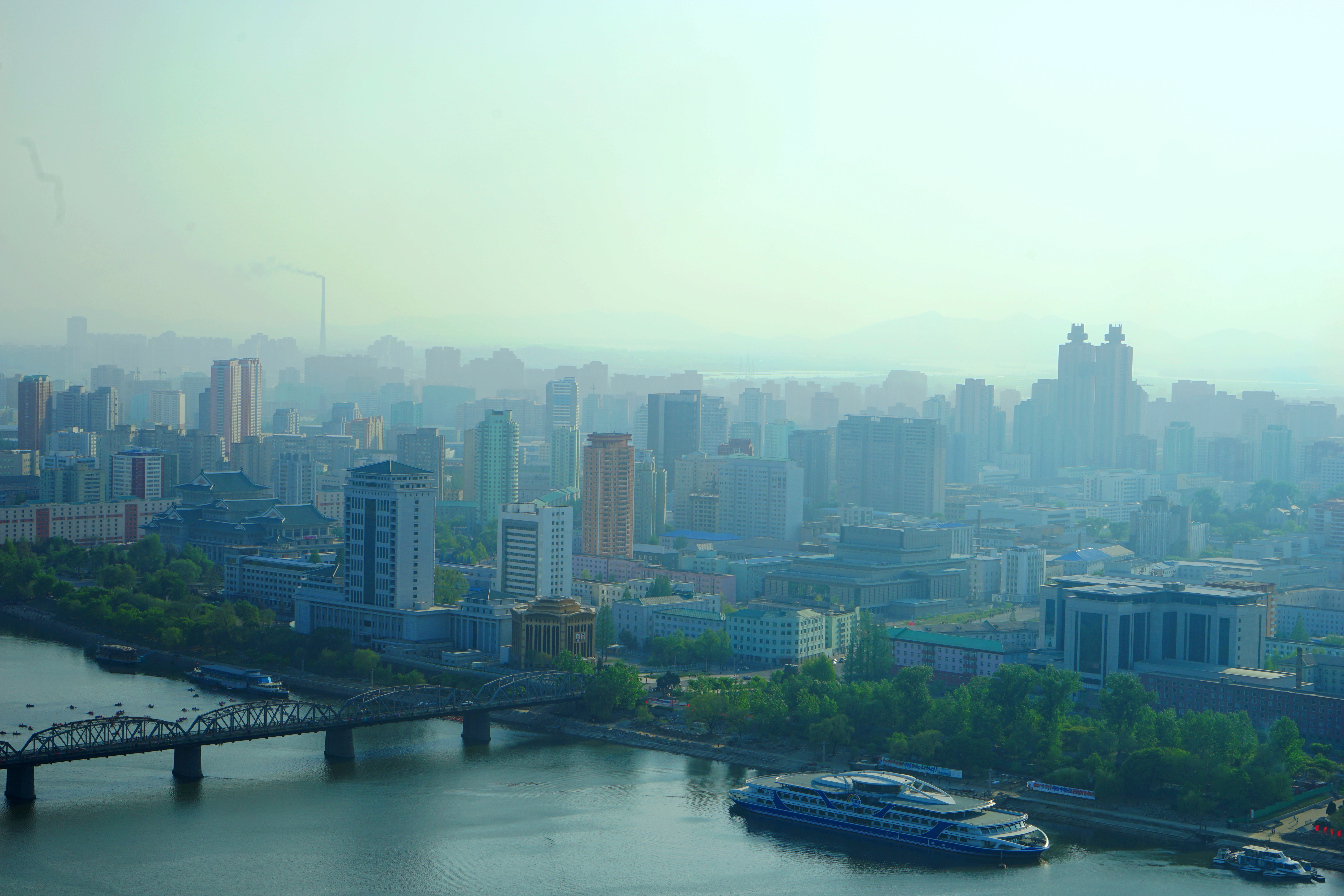 West side of Taedong river, Pyongyang, North Korea